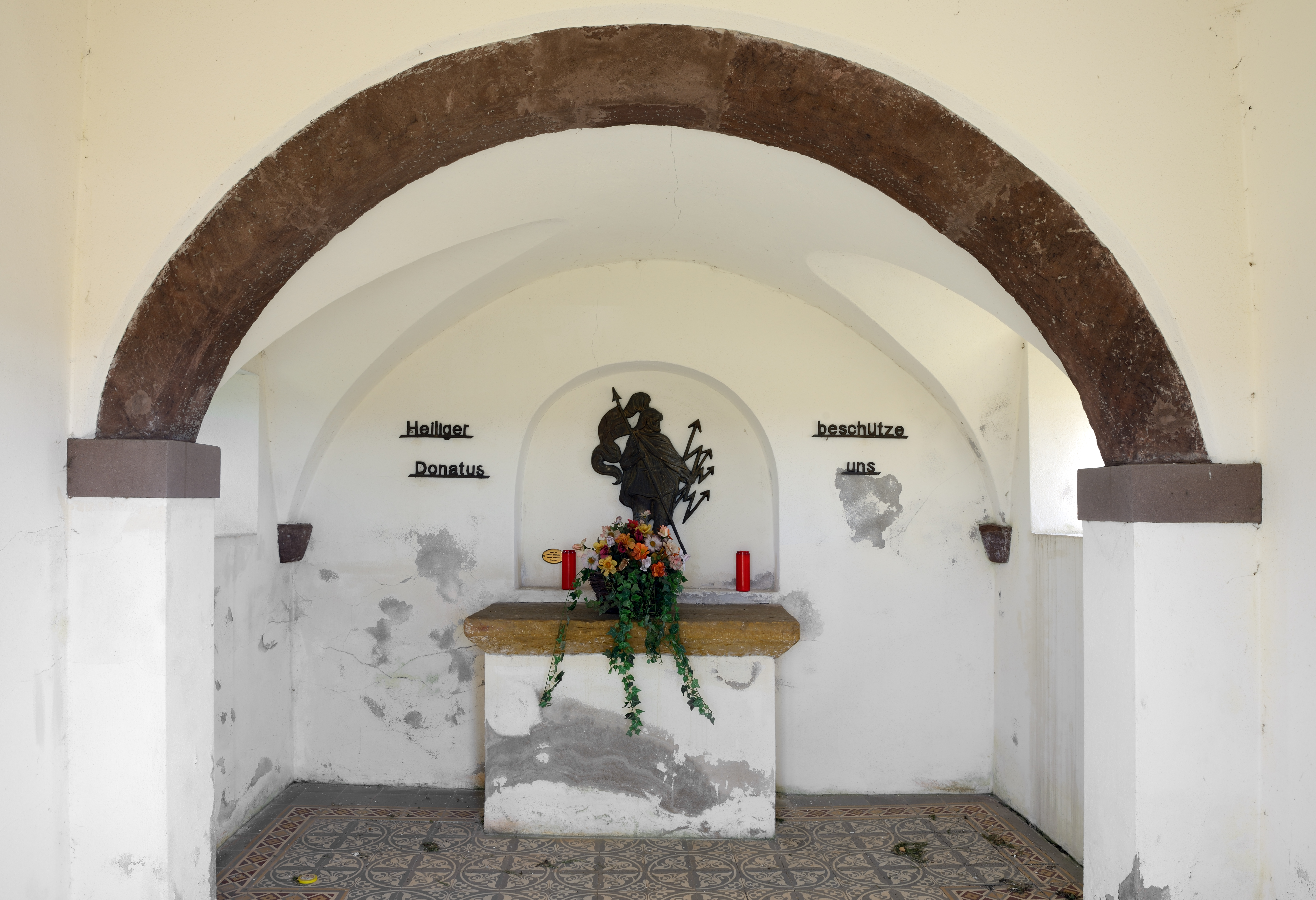 Interior of the Saint Donatus chapel at Beidweiler, Luxembourg.